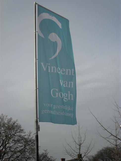 Flag of Vincent van Gogh, voor geestelijke gezondheidszorg